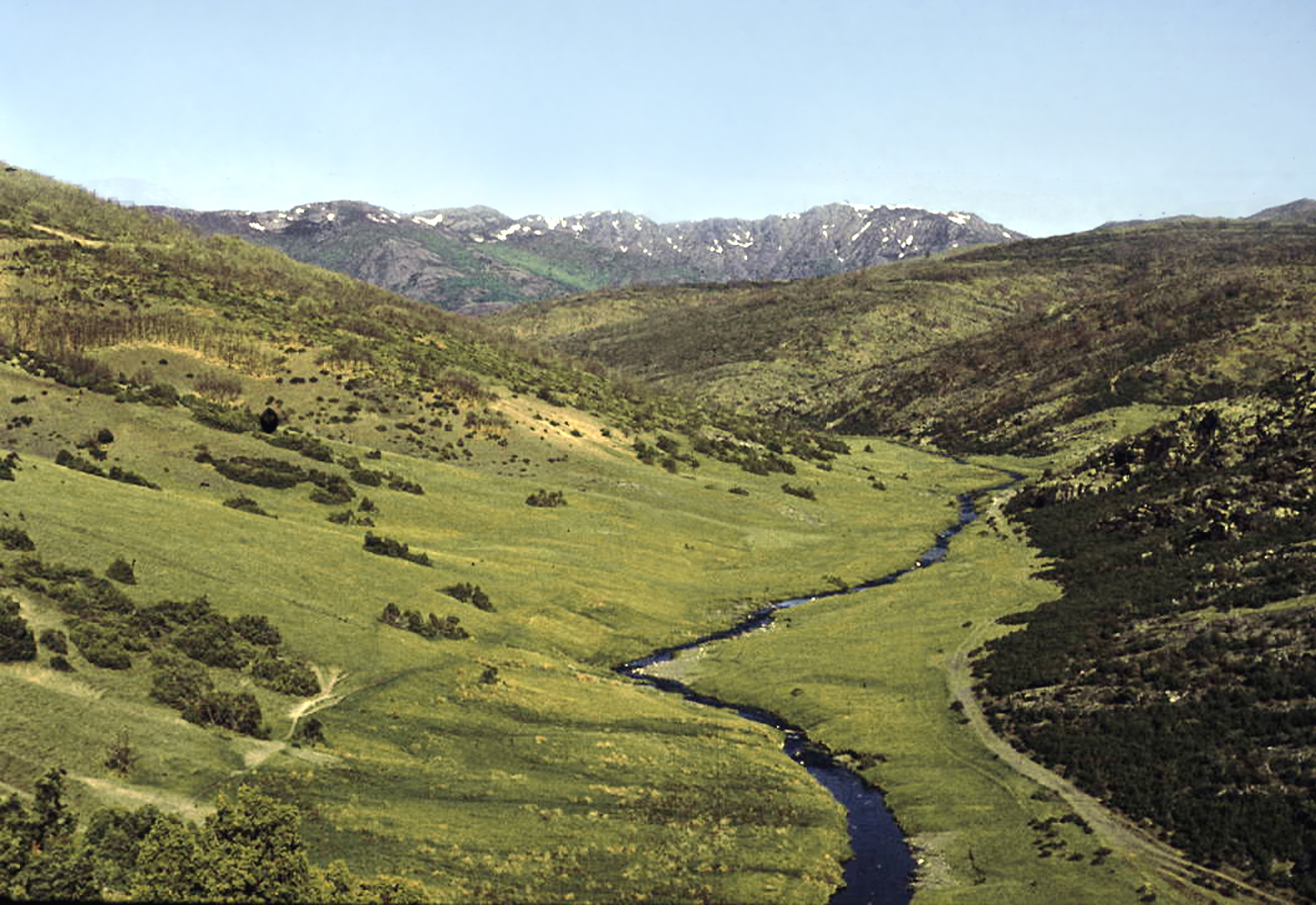 Lillas River valley; in the background, El Lobo massif . Cantalojas, Guadalajara, Castile-La Mancha, Spain